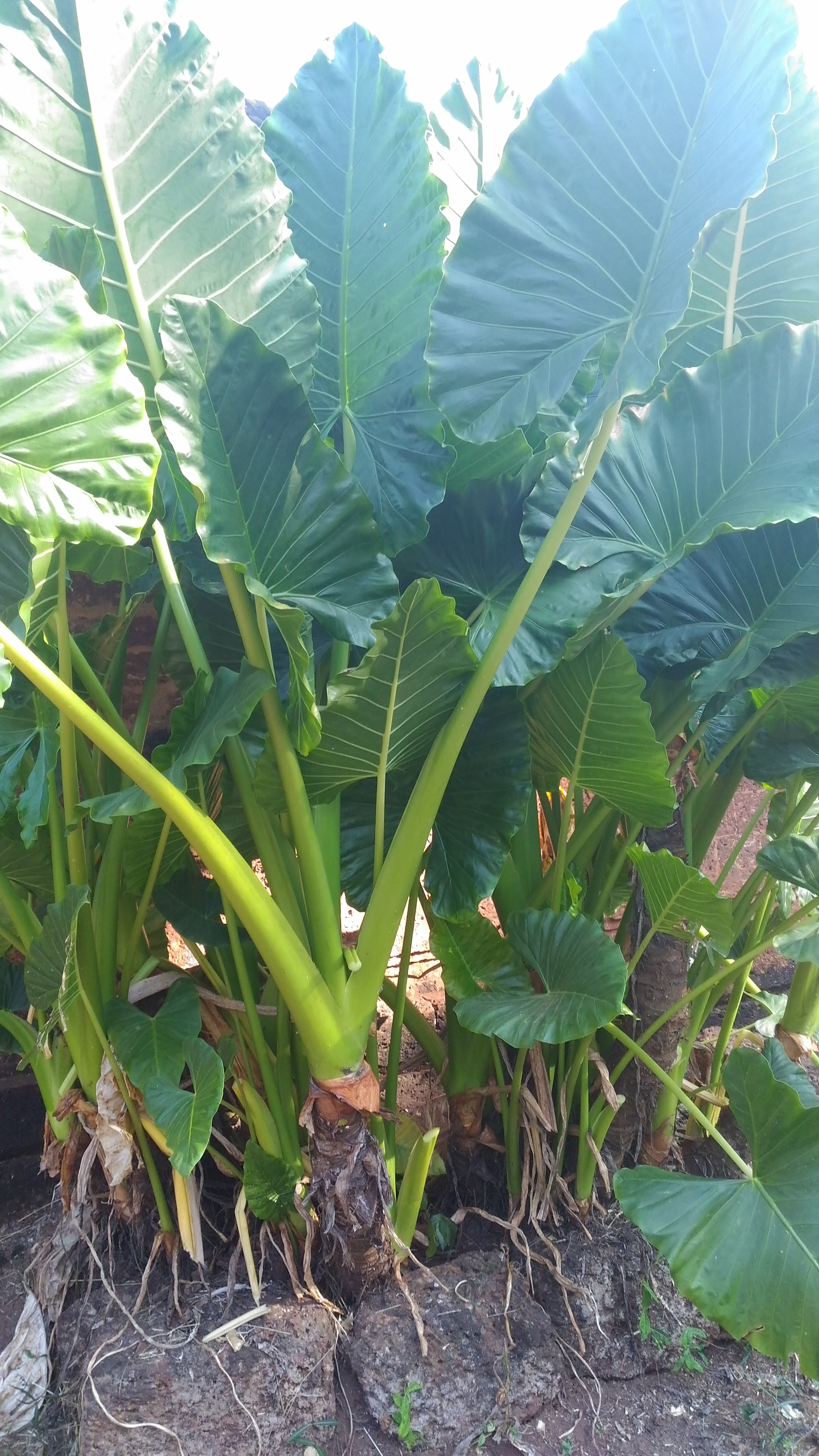 Mundia_ a type of colocasia plant